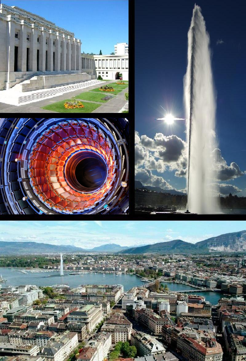 Montage for the Geneva article on Wikipedia.